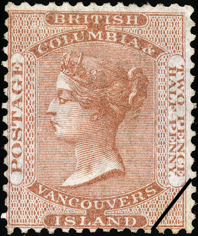 Postal Administration: British Columbia & Vancouver Island ; Title: Queen Victoria ; Denomination: 2½d ; Date of Issue: 1860